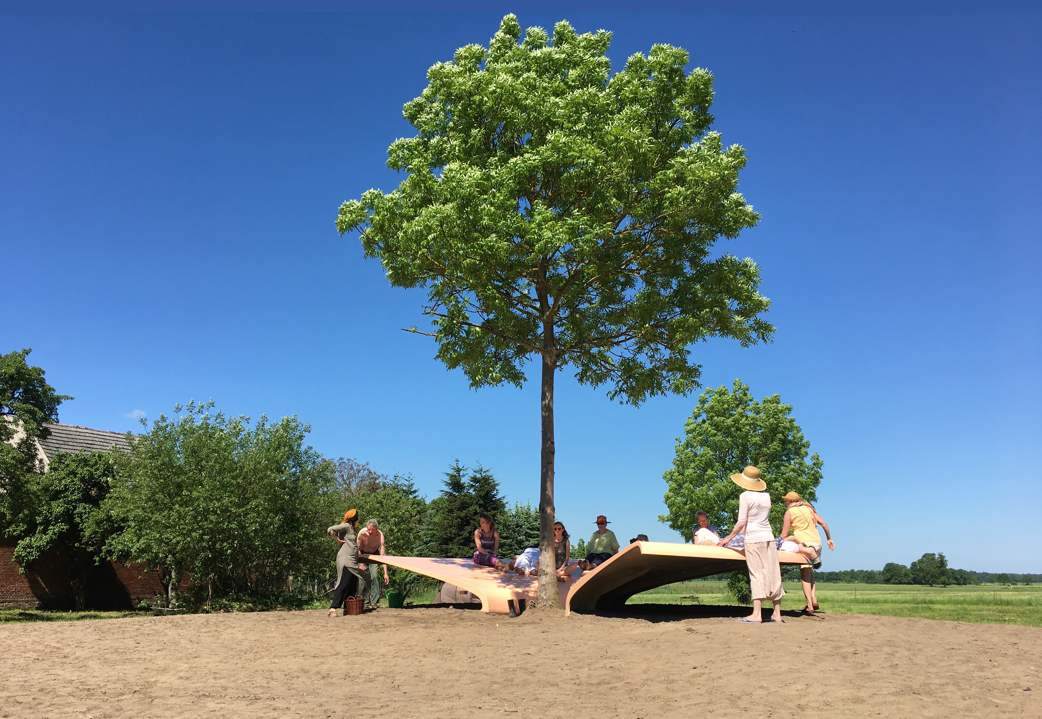 Ute Reeh: Second prototype of a Baumscheibe (tree disc) shortly before its inauguration 2017 on the occasion of the second 'Wiesengespräch'. Location: Center for Periphery, Nebelin, Brandenburg, Germany. Material: fusion bonded epoxy coating (FBE coating), diameter: 710 cm, height: 88 cm